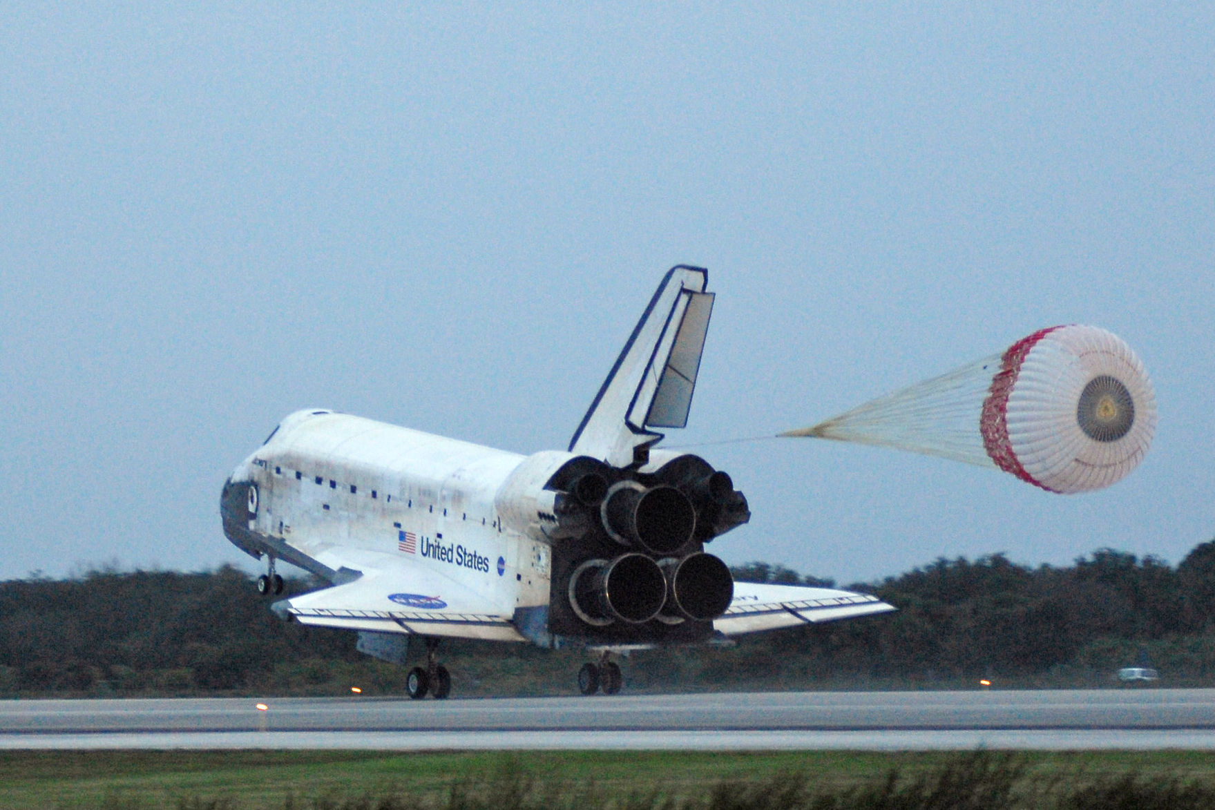 Original Description: Space Shuttle Discovery landed safely at 5:32 p.m. EST on Dec. 22, at Kennedy Space Center to bring STS-116's successful mission to the International Space Station to an end. The mission continued the on-orbit construction of the station and delivered a new Expedition 14 crew member.